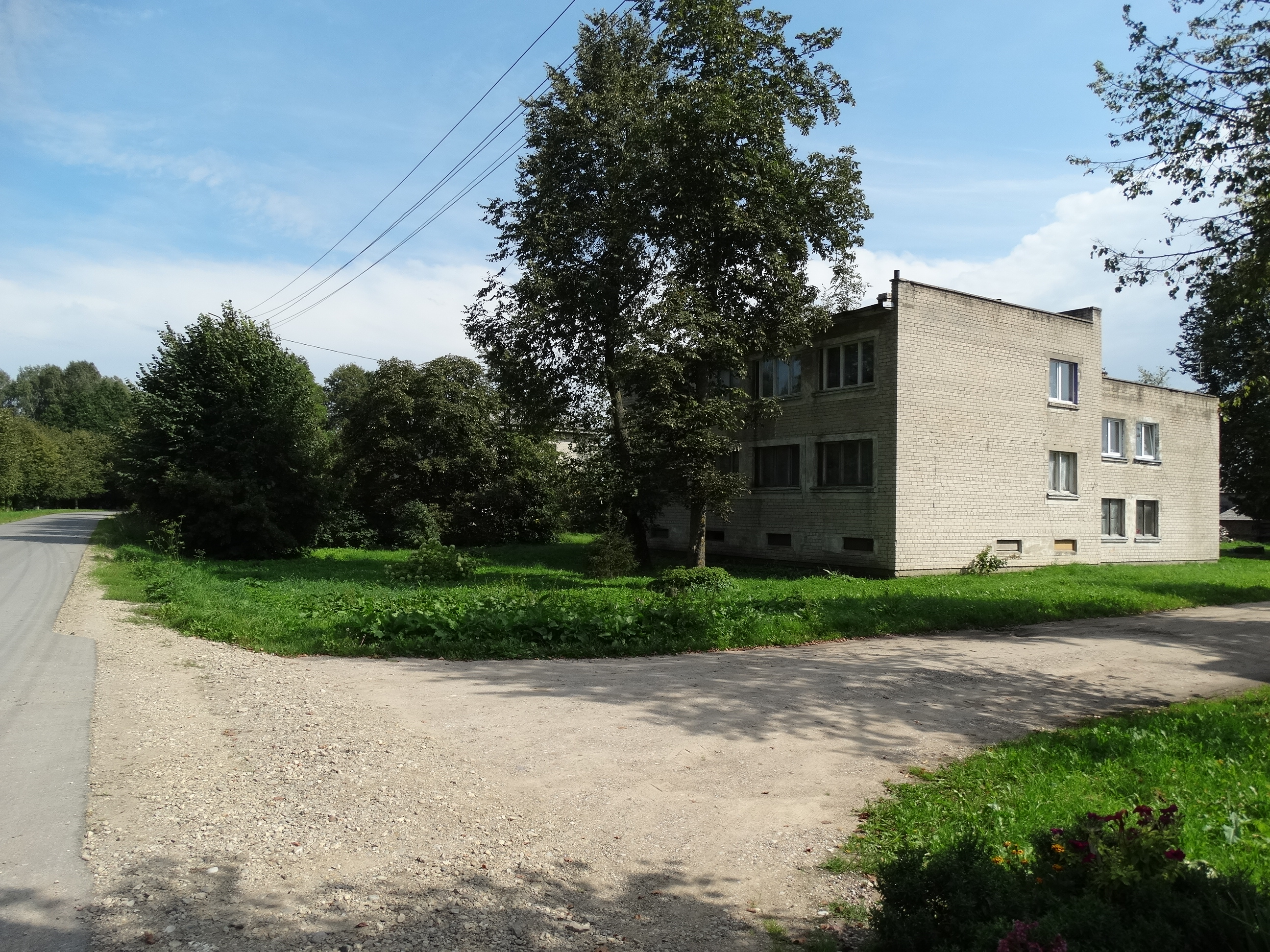 Griaužai, Jurbarkas district Lithuania